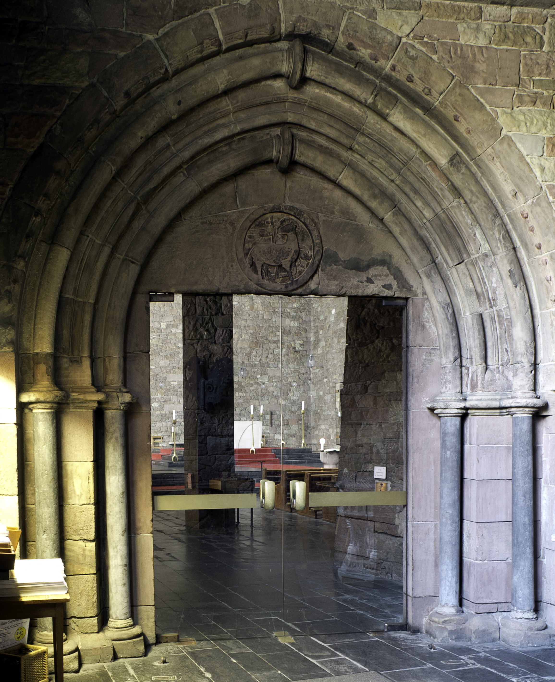 Historic Portal of the former gothik St. Anne' Church at Dueren.